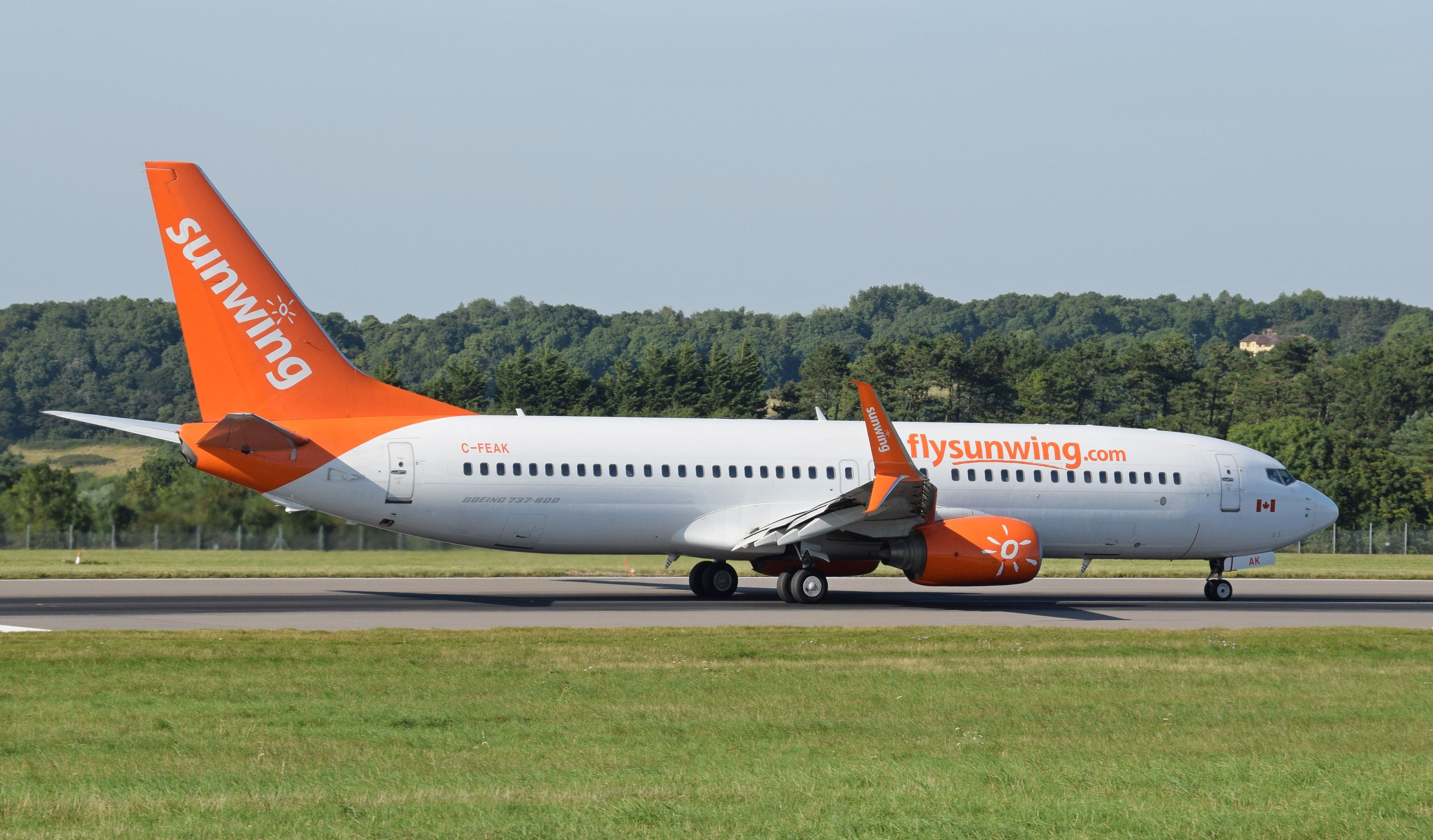 Boeing 737-800 of Sunwing Airlines (Canadian registration C-FEAK) at Bristol Airport, England.